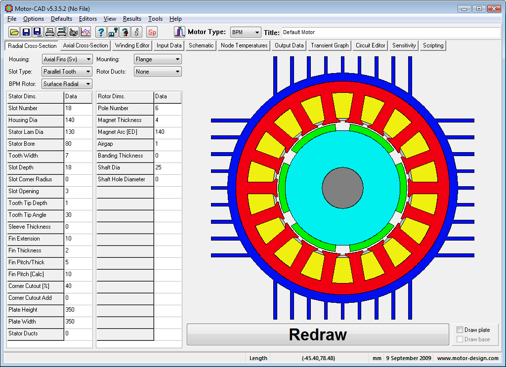 Motor-CAD v5 screenshot.